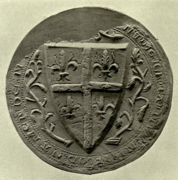 Seal of John Hastings, 1st Baron Hastings (6 May 1262 – 28 February 1313), feudal Lord of Abergavenny, an English peer and soldier. He was one of the Competitors for the Crown of Scotland in 1290/92 in the Great Cause and signed and sealed the Barons' Letter of 1301, with this seal. GEC Complete Peerage (vol.6, p.347) blazons but fails to identify these arms. Like his brother he did not seal the Barons' Letter with his paternal arms.